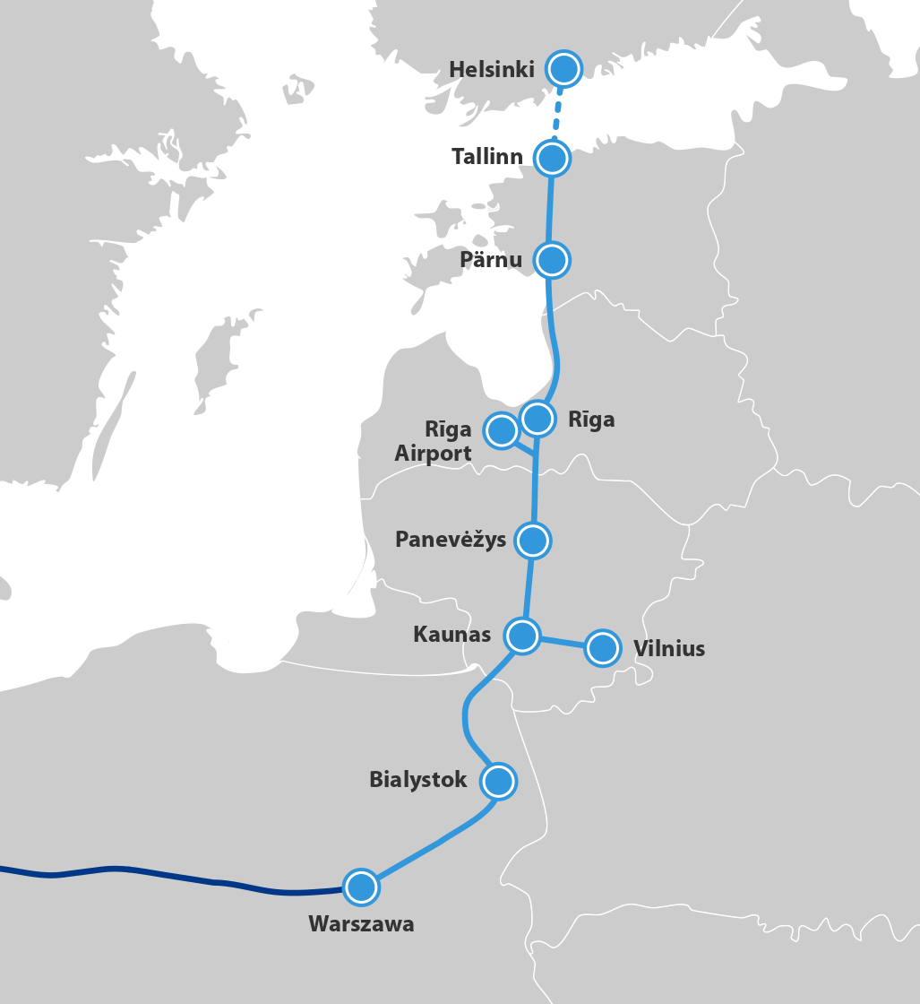 Rail Baltica as Part of the North Sea-Baltic Core Network Corridor